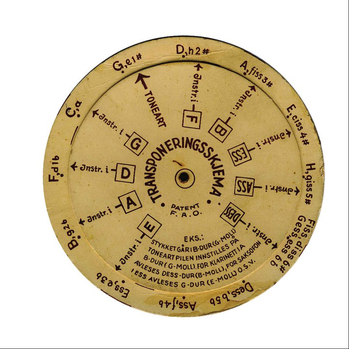 A patented key transposing wheel; invented by the Norwegian musician Finn Audun Oftedal. By turning the upper cardboard sheet you get help in transposing from one key to another. The text on the wheel reads, in translation: "The piece of music is written in bB major (G minor). The key arrow is set to point at bB major (G minor). clarinet in A shows bD major (B minor); saxophone in bE shows G major (E minor) etc."